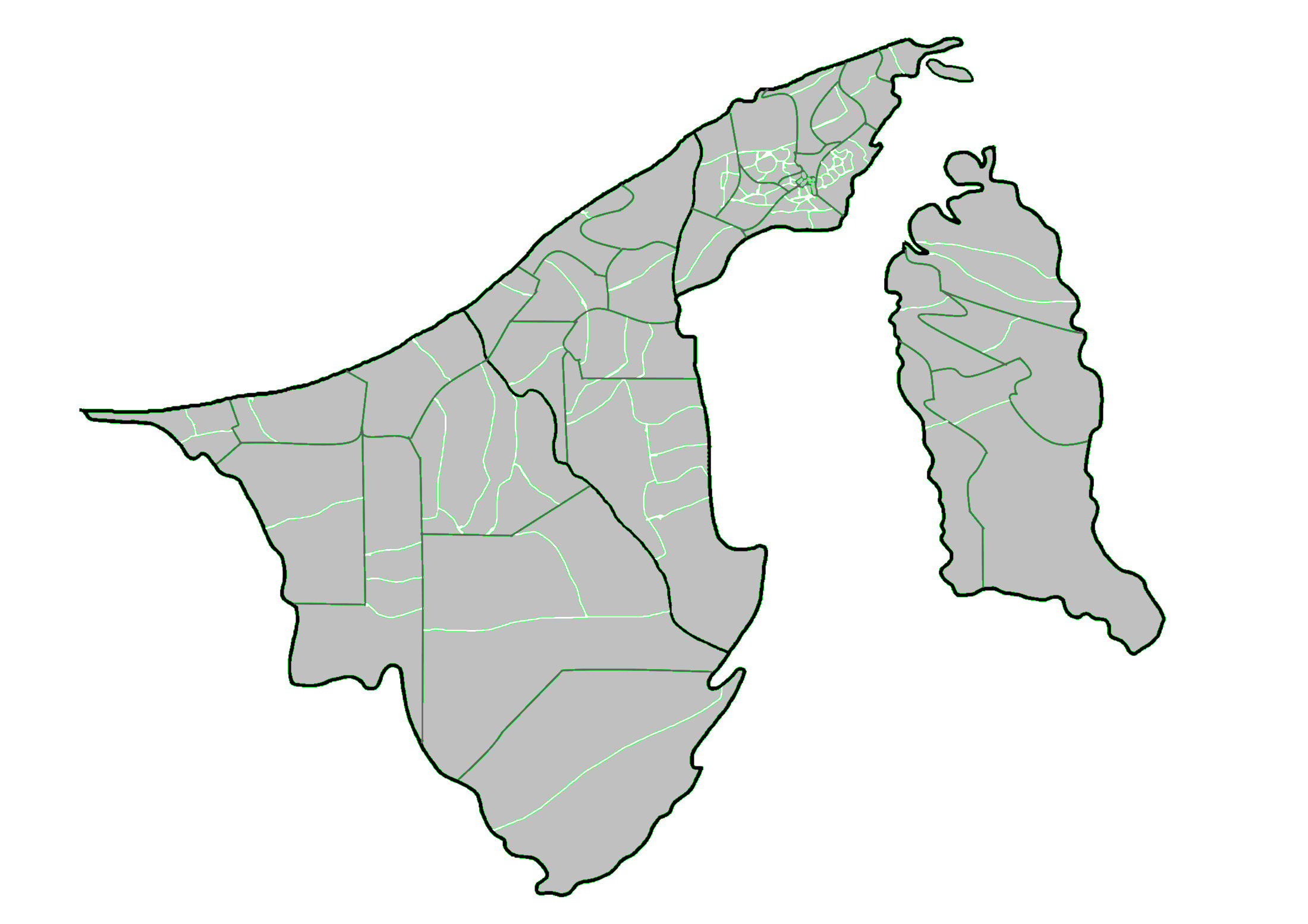 The villages of brunei